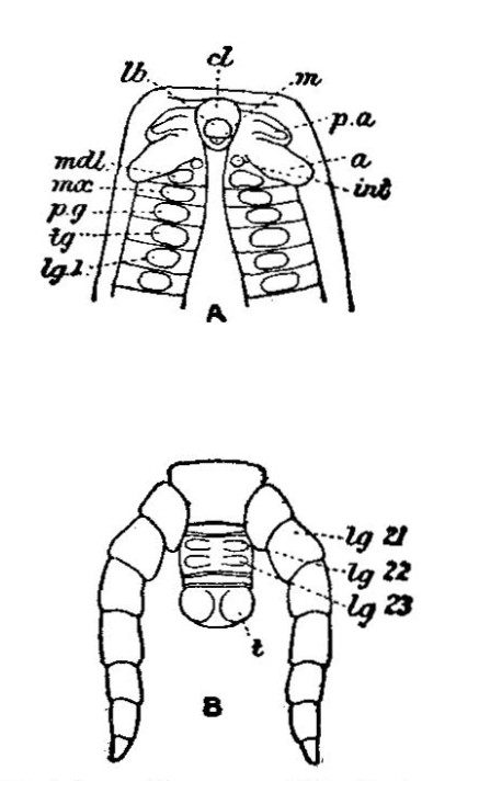 A, Diagram of anterior extremity of an early embryo of Scolopendra, ventral view; cl, clypeus; lb, labrum; m, mouth; p.a, preantennal appendage; a, antenna; int, premandibular rudiment; mdl, mandible; mx, maxilla; p.g, palpognath; t.g, toxicognath; lg. 1, first pair of walking legs. B, Posterior end of a later embryo of Scolopendra, ventral view, showing the anal segment or telson (t); the legs of the last pair in the adult (lg. 21) and the two rudimentary pairs of legs (lg. 22, lg. 23). Modified from Heymons, Bib. Zool., 1901, by permission of E. Nagele.